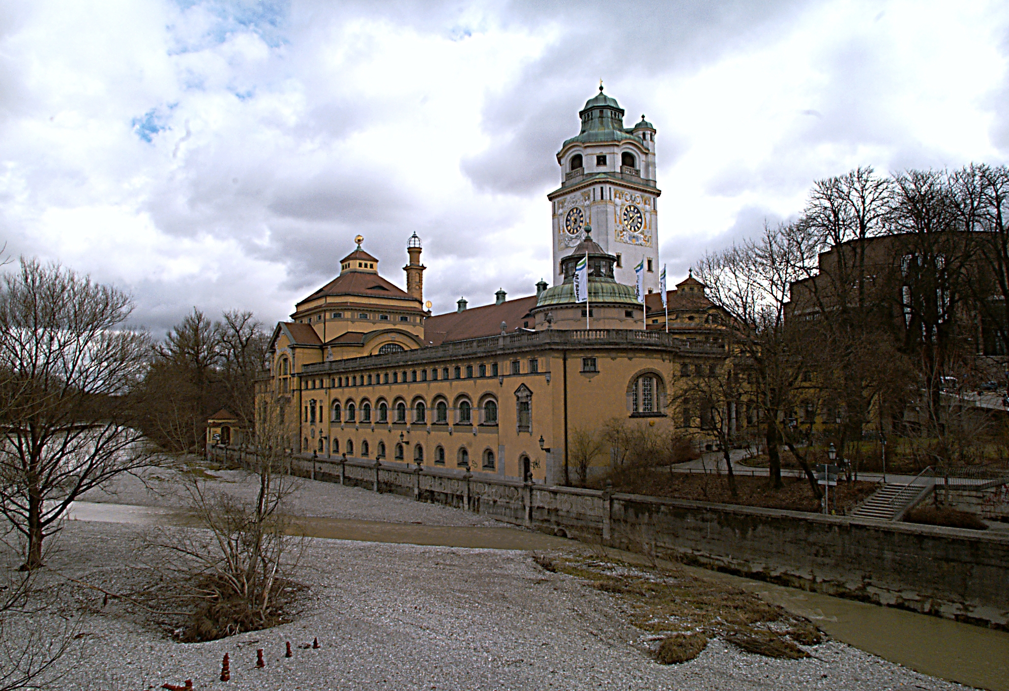 Description: Müllersches Volksbad indoor swimming pool in munich Date March 2006 Author: myself Permission: GFDL & CC-BY 2.5